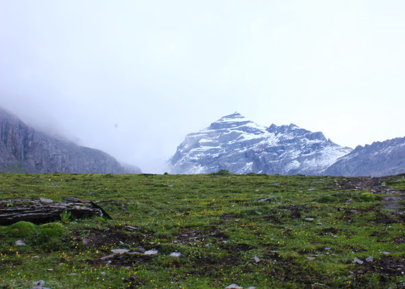 The Second Peak of Mt.Siguniang